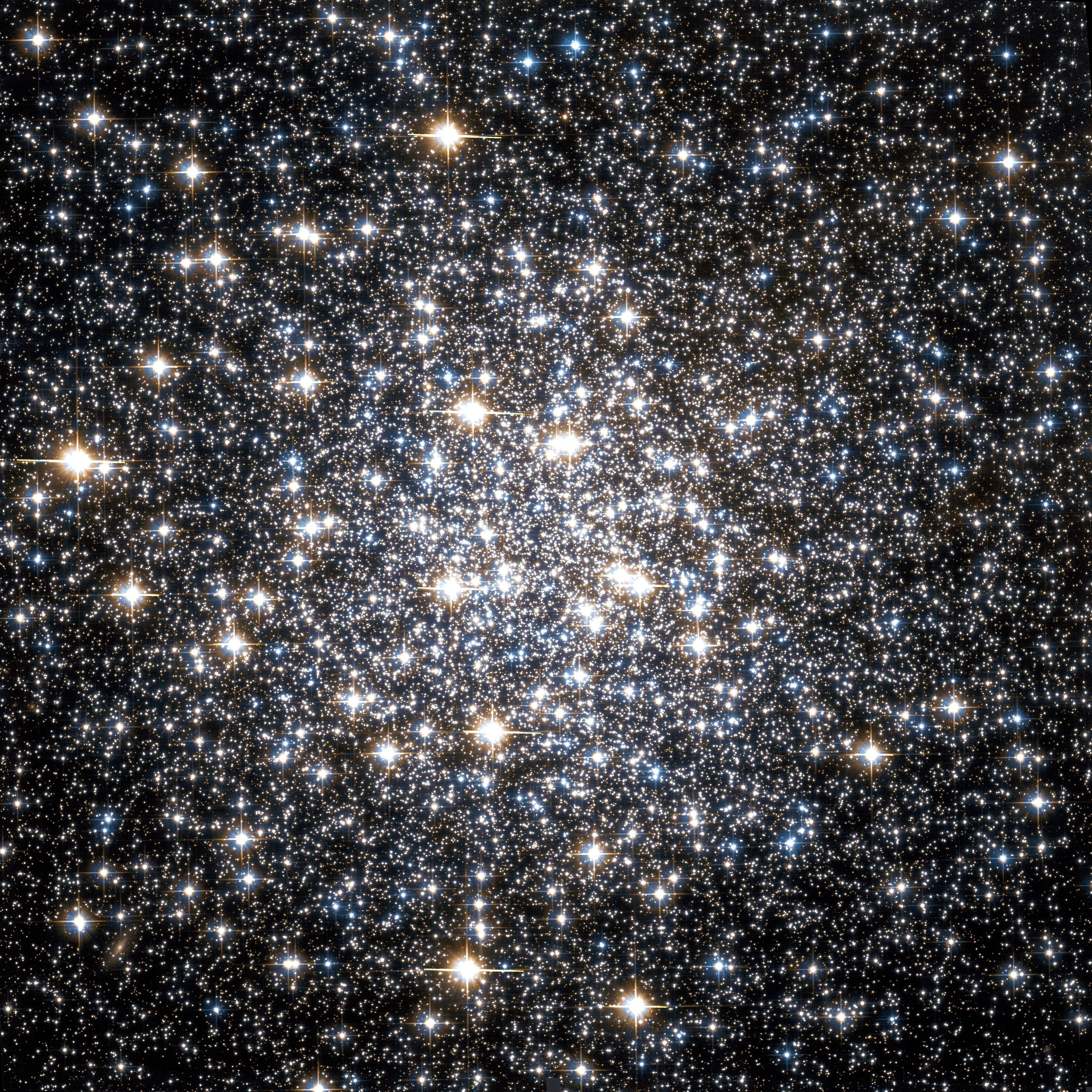 Messier 10 globular cluster by Hubble Space Telescope; 3.5′ view